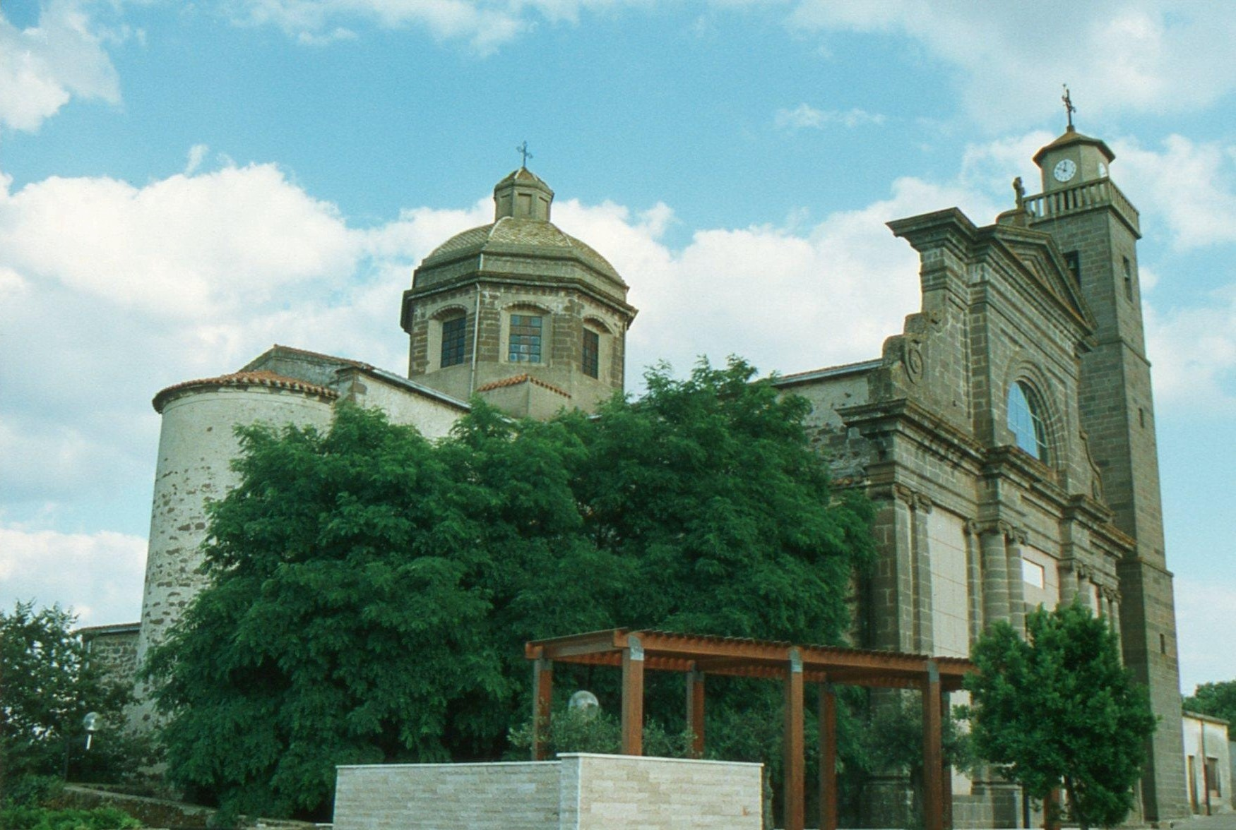 From a visit to Abbasanta in the June of 2000.